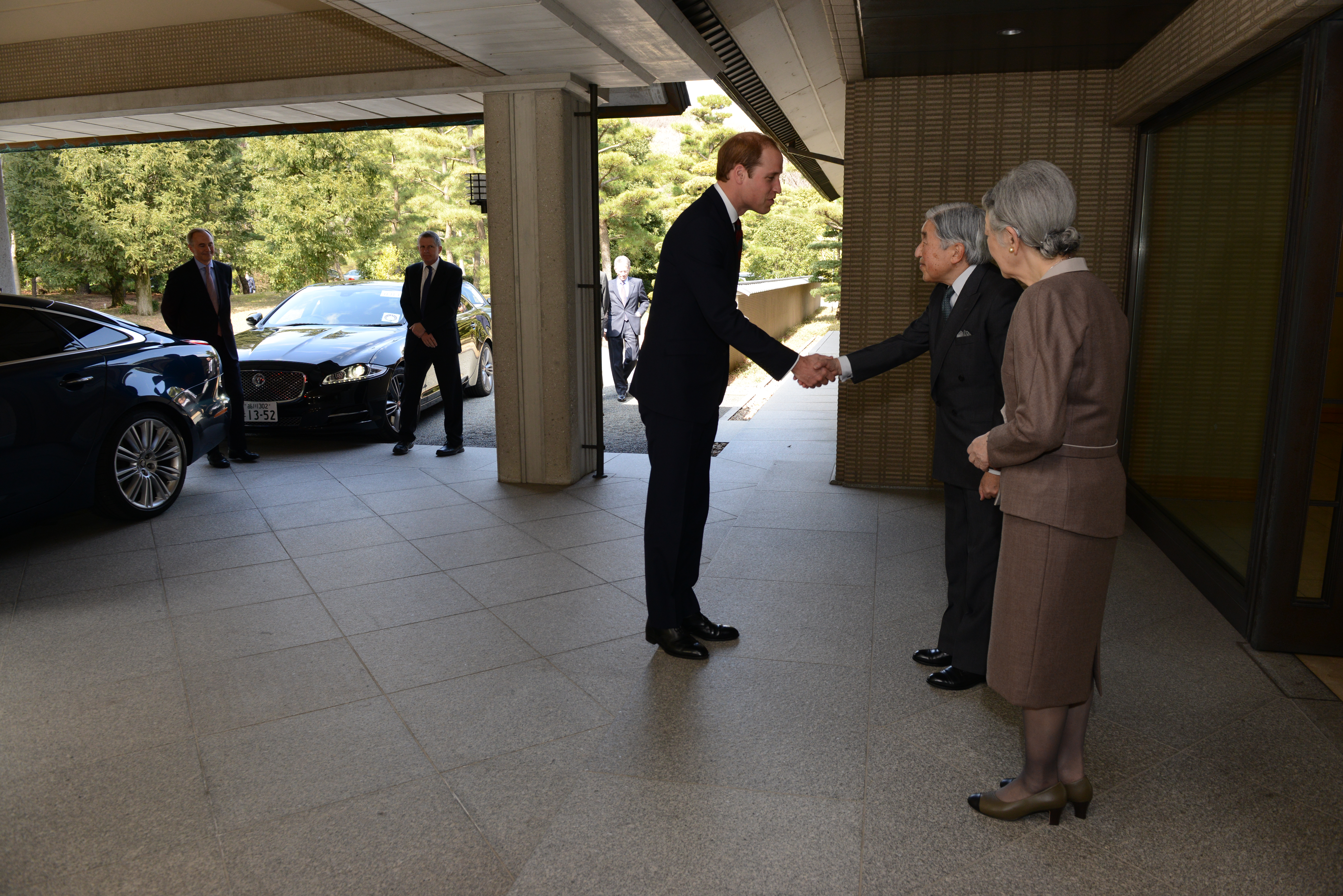 Prince William met Emperor Akihito and Empress Michiko at the Imperial Residence in Chiyoda Ward, Tōkyō Metropolis on February 27, 2015.